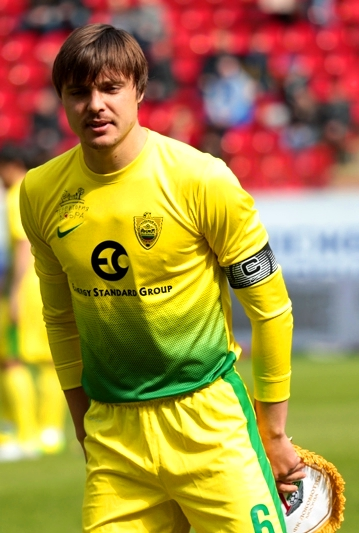 Alexandru Epureanu2014